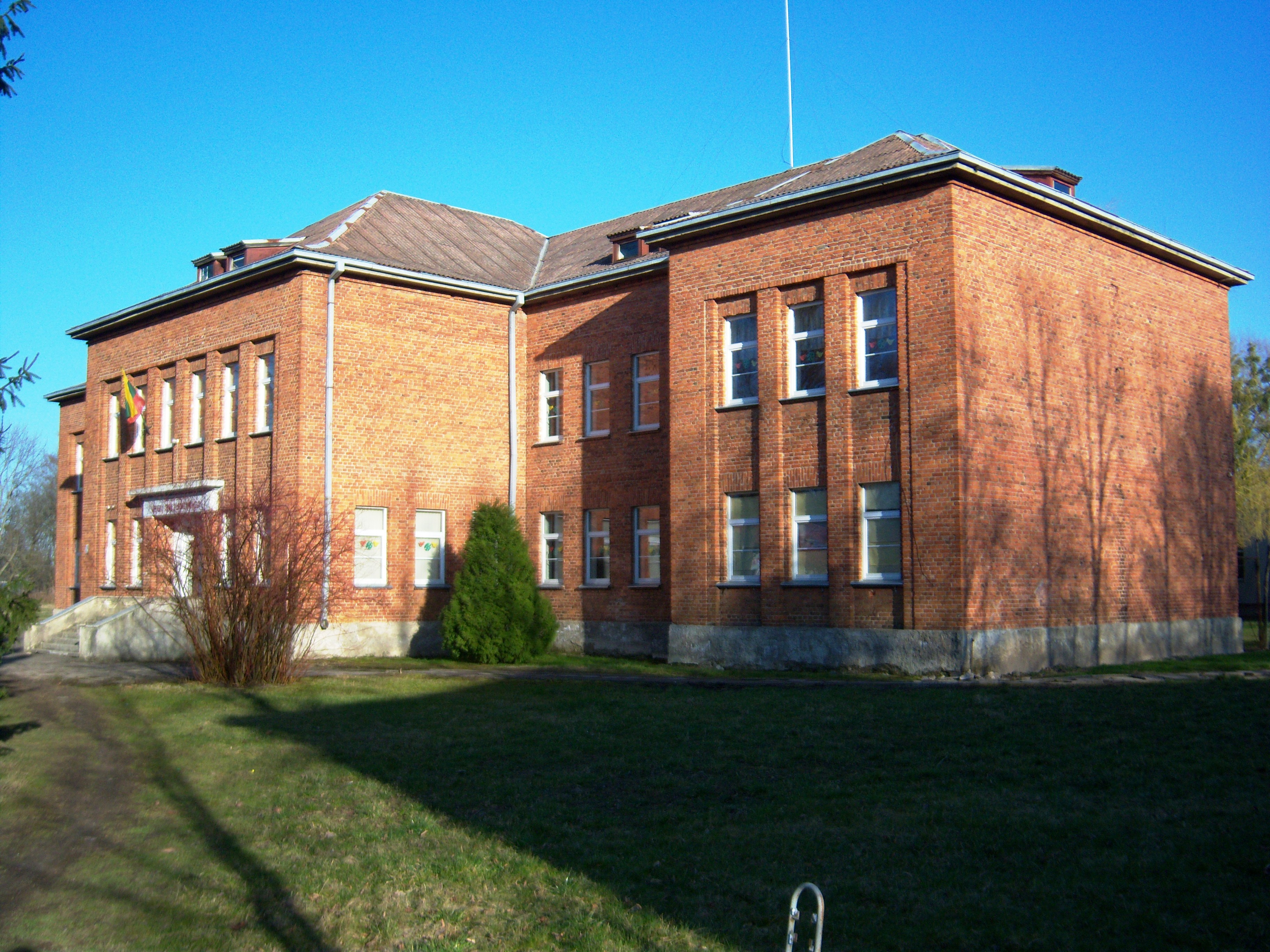 Tomas Žilinskas gymnasium, Veiveriai, Lithuania